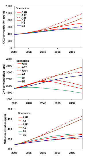 This image shows three graphs of projected changes over the 21st century in the atmospheric concentrations of three greenhouse gases: carbon dioxide (chemical formula CO2), methane (CH4), and nitrous oxide (N2O). These projections are based greenhouse gas emissions scenarios contained in the Intergovernmental Panel on Climate Change's (IPCC) 2000 "Special Report on Emissions Scenarios" (SRES) (see the cited source). These projections do not include possible emission feedbacks from sources such as permafrost or the Amazon rainforest (sentence not supported by cited source - ed). References for this description (or part of this) or for the depiction in the file are not provided. Relevant discussion may be found on the talk page.